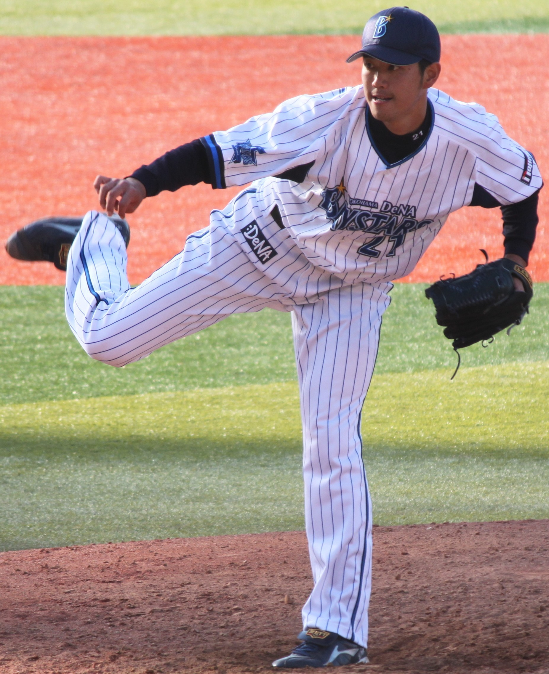 Kisho Kagami, pitcher of the Yokohama DeNA BayStars, at Yokohama Stadium.